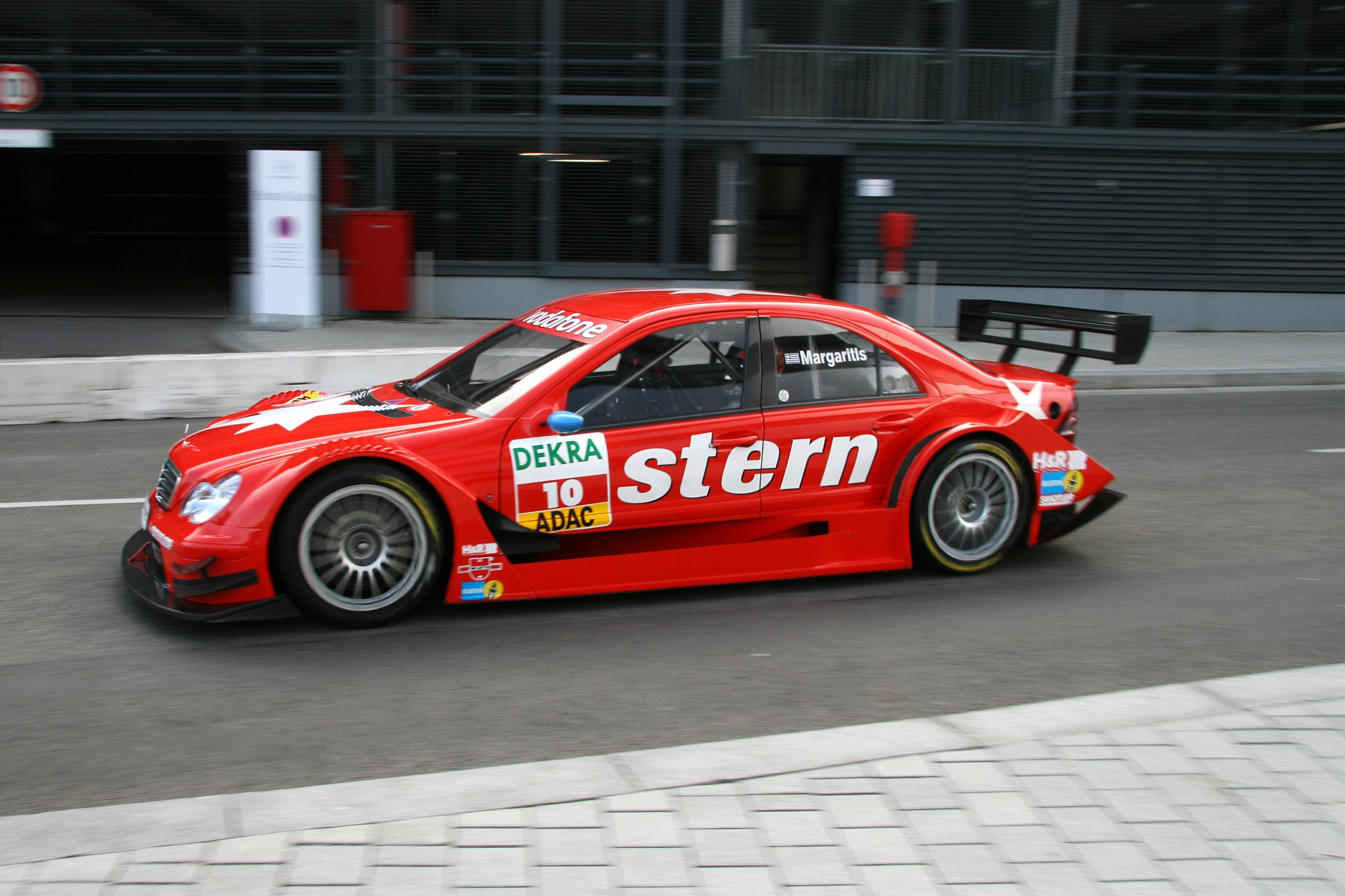 DTM car Mercedes-Benz Season 2007 (C-Class, W203), Margaritis (driver)